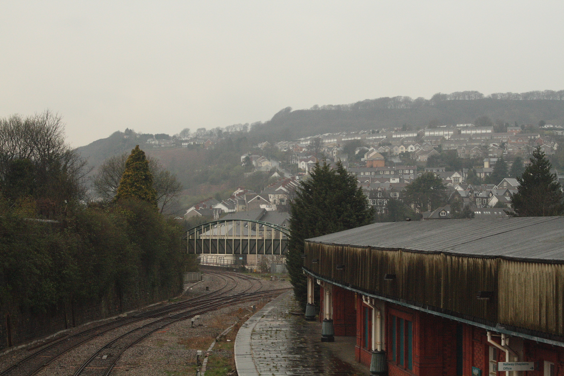 Pontypridd